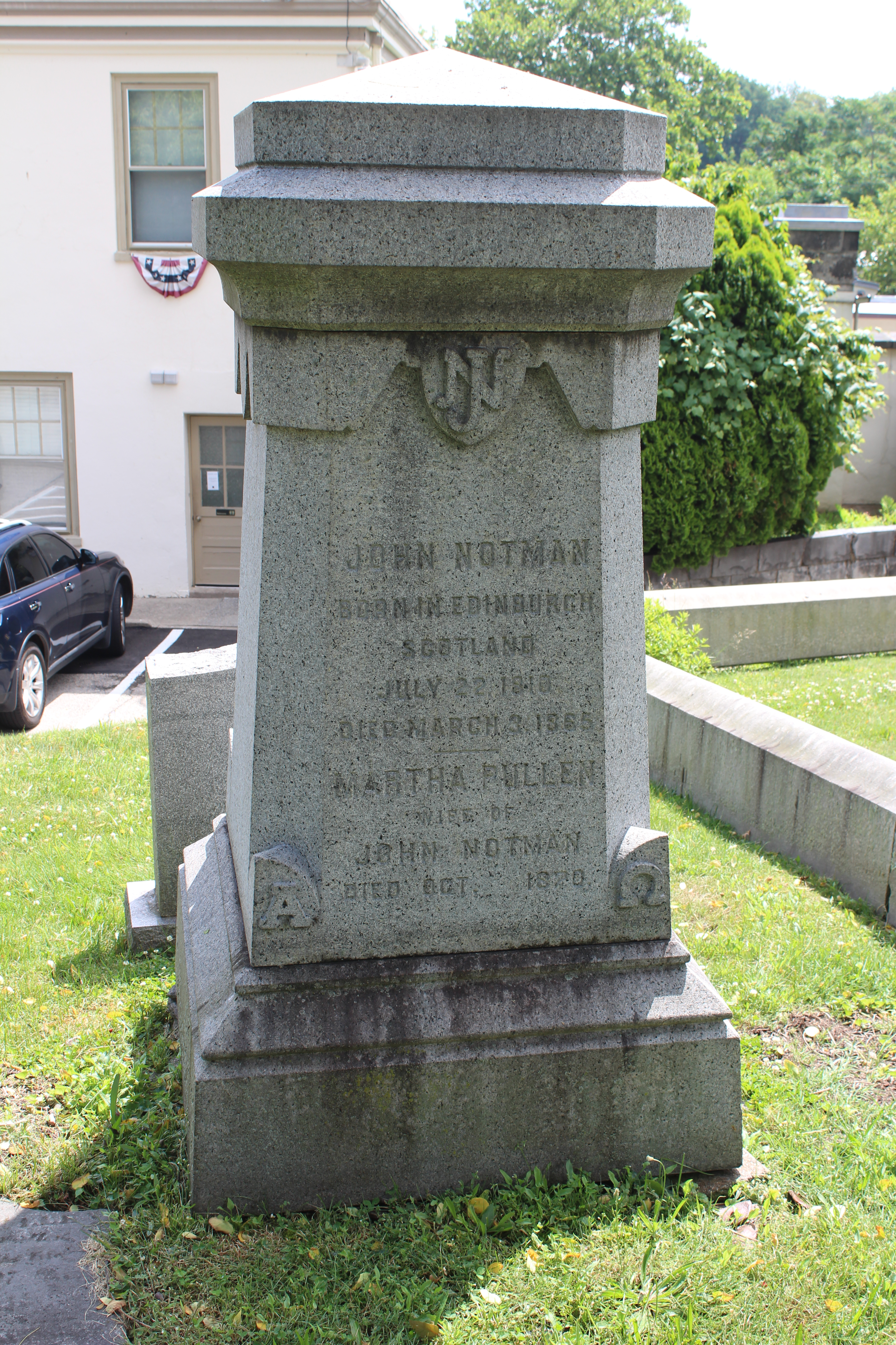 John Notman Tombstone in Laurel Hill Cemetery. Photo taken June 2020.